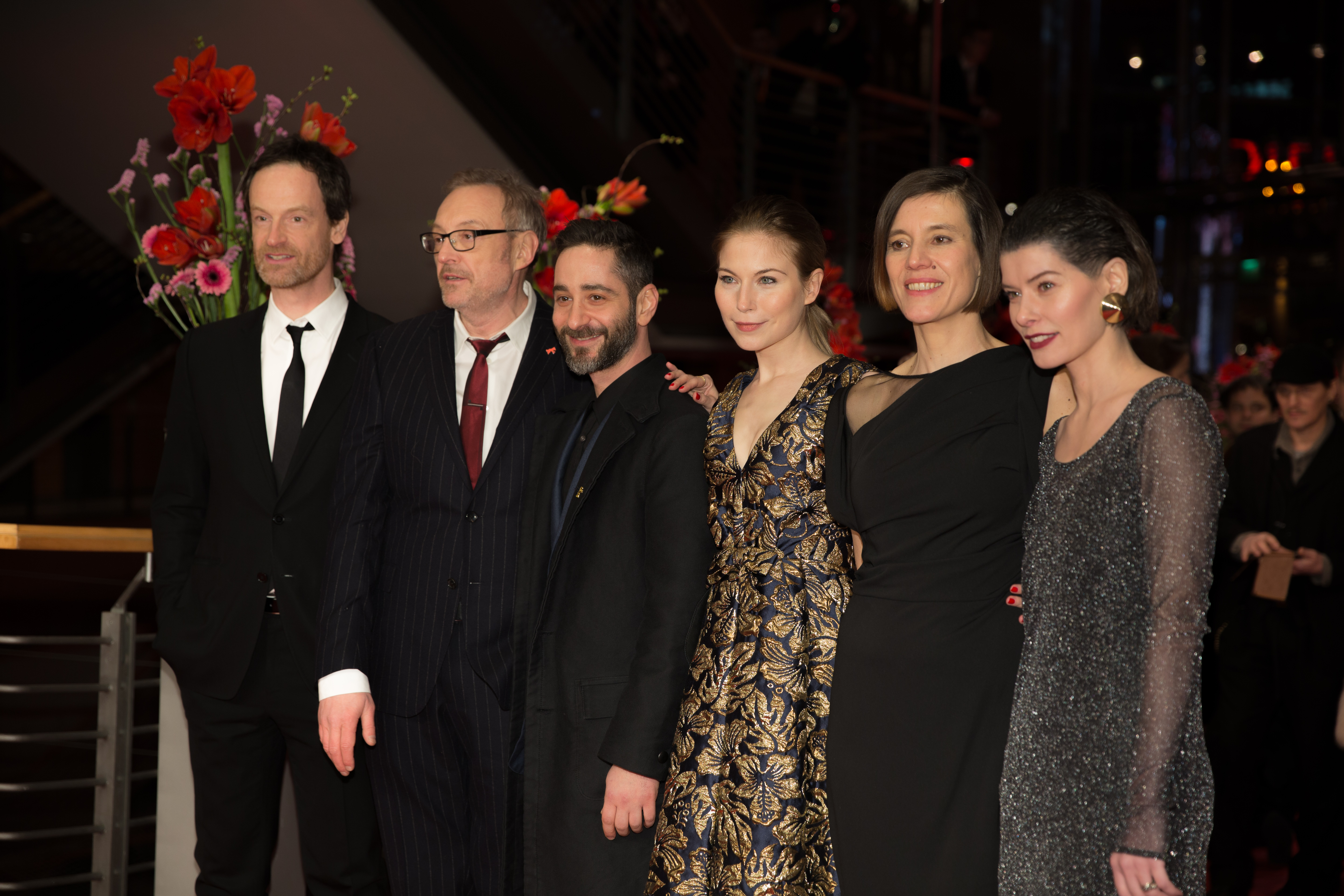 Jörg Hartmann, Josef Hader, Denis Moschitto, Nora von Waldstätten, Pia Hierzegger and Crina Semciuc, the film team of Wilde Maus at the Berlinale 2017